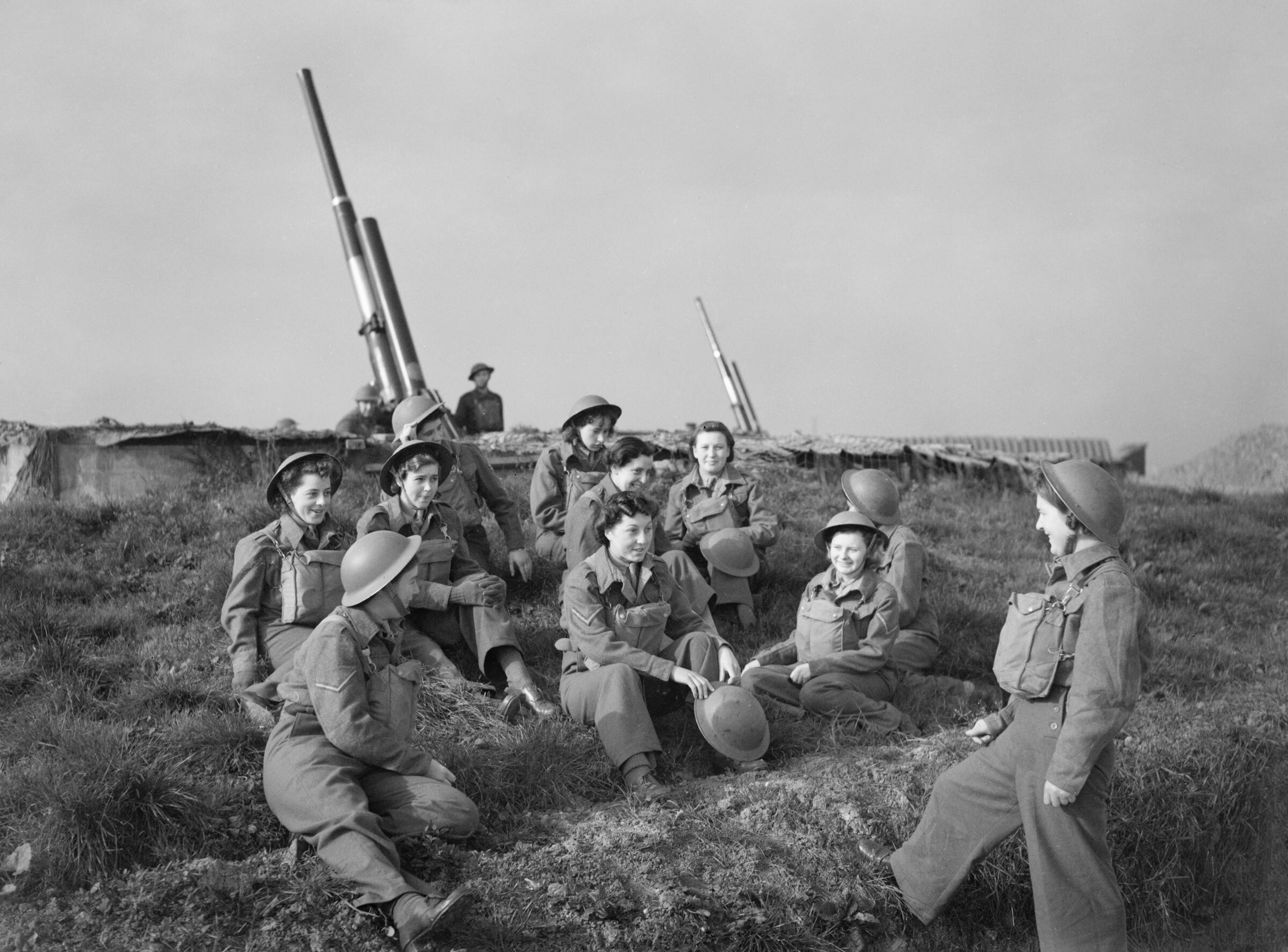 Auxiliary Territorial Service (ATS) women at a 3.7-inch anti-aircraft gun site at Wormwood Scrubs in London, 22 October 1941. ATS women take a break at a 3.7-inch anti-aircraft gun site at Wormwood Scrubs in London, 22 October 1941.